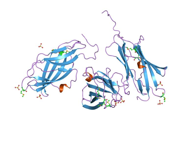 Cartoon representation of the molecular structure of protein registered with 1rho code.